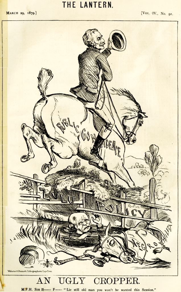 Cartoon from the pro-imperialist Lantern newspaper attacking the liberal leader Saul Solomon. Solomon is shown defeated in his attempt to strengthen Black Civil Rights in the Cape and avert the Anglo-Zulu War. His broken horse is labelled "Negrophilist". The British Imperial Governor Bartle Frere is depicted victorious and moving successfully forward to invade Zululand.